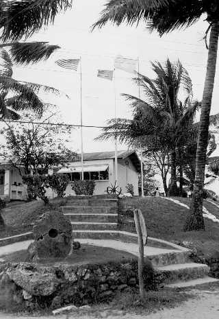 TTPI(Trust Territory of the Pacific Islands) Yap District Administration Office